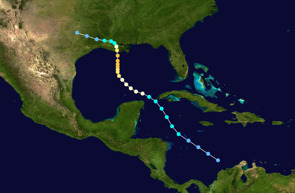 Track map of Hurricane Three of the 1926 Atlantic hurricane season. The points show the location of the storm at 6-hour intervals. The colour represents the storm's maximum sustained wind speeds as classified in the Saffir-Simpson Hurricane Scale (see below), and the shape of the data points represent the nature of the storm, according to the legend below. Saffir–Simpson scale Tropical depression≤38 mph≤62 km/h Category 3111–129 mph178–208 km/h Tropical storm39–73 mph63–118 km/h Category 4130–156 mph209–251 km/h Category 174–95 mph119–153 km/h Category 5≥157 mph≥252 km/h Category 296–110 mph154–177 km/h Unknown Storm type Tropical cyclone Subtropical cyclone Extratropical cyclone / Remnant low / Tropical disturbance / Monsoon depression